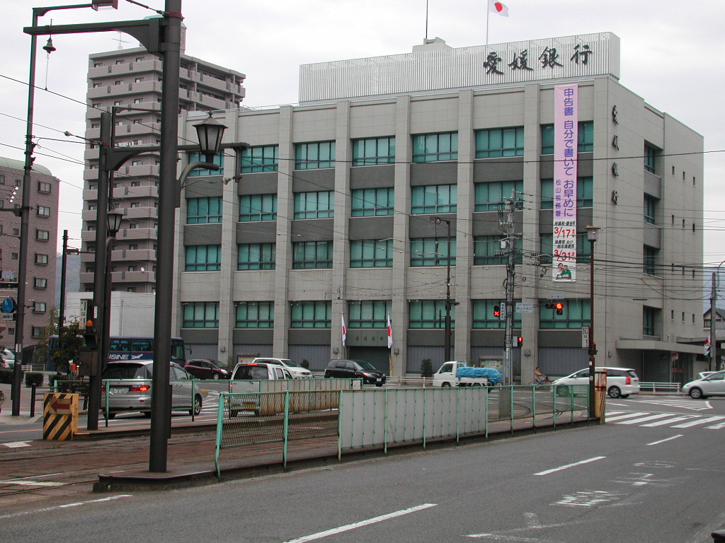 Iyo railway Katsuyamacho Station